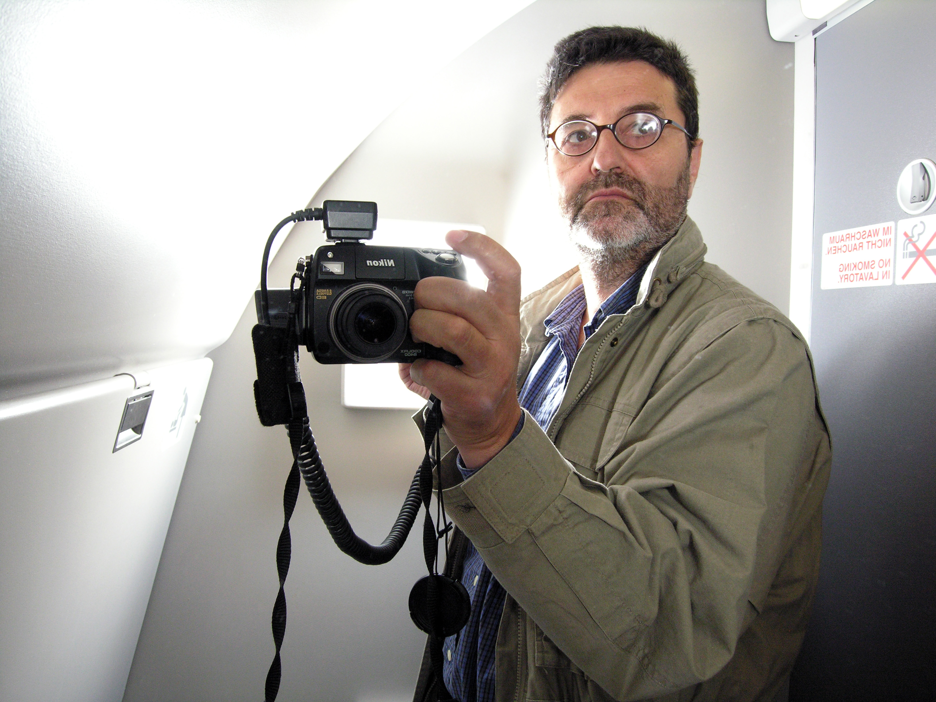 Self portrait of Camilo José Vergara. Apparently taken in a Lufthansa bathroom, from May 2005. EXIF data reports that the camera is a Nikon_Coolpix_8400. Provided to Jim Harper by Camilo José Vergara upon personal request on April 11, 2006.